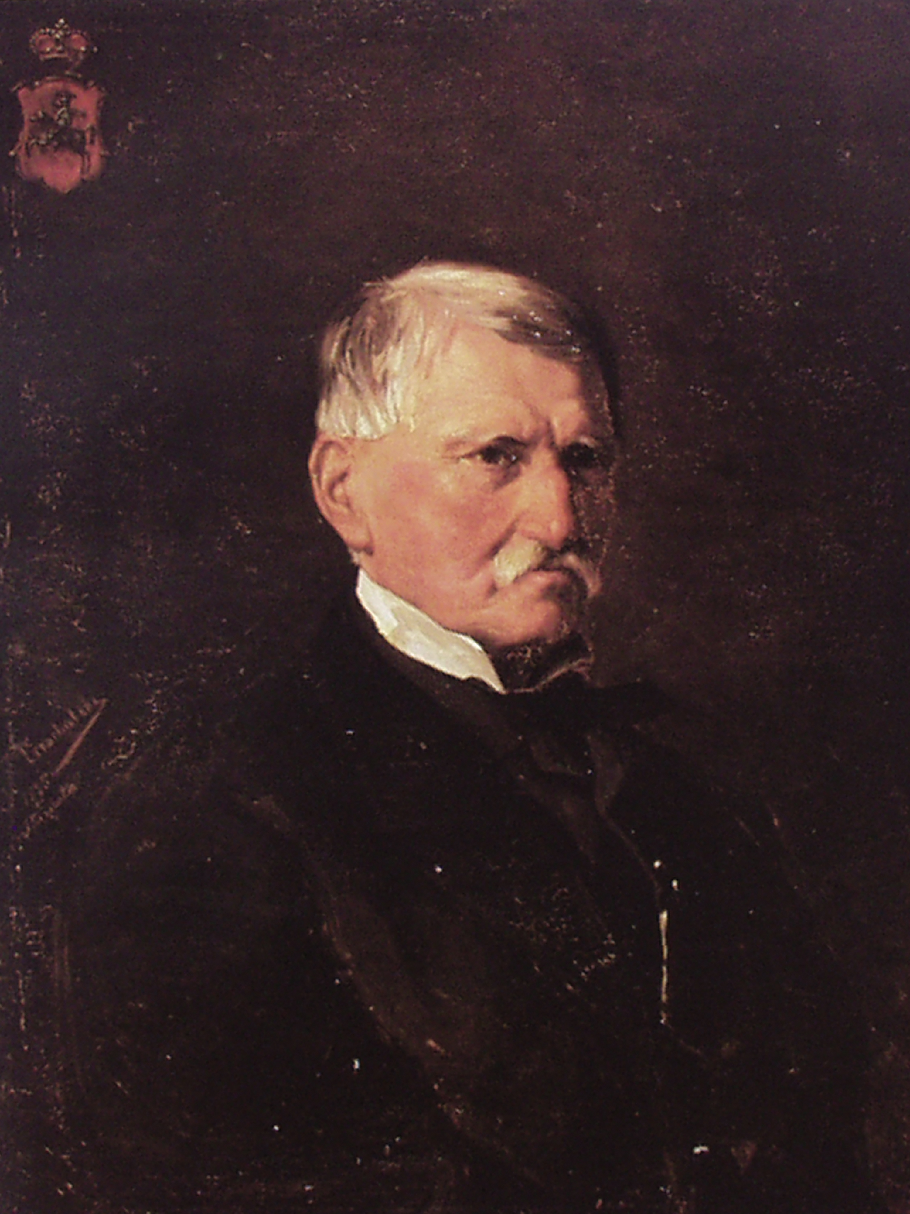 Роман Адам Санґушко.